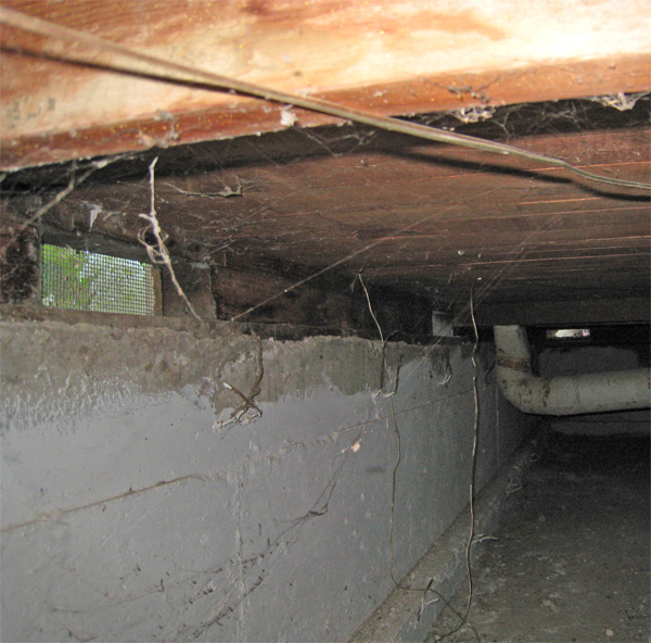 Inside view of a building crawl space